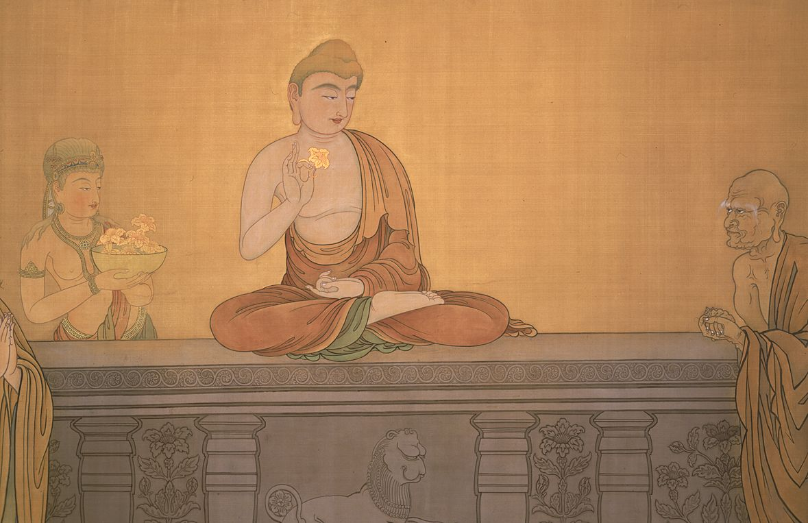 Mahākāśyapa smiling at the lotus flower, by Hishida Shunso, 1897, Nihonga style. In East Asia, there is a Chan and Zen tradition, first recounted in the The Jingde Record of the Transmission of the Lamp (Chinese: 景德傳燈錄; pinyin: Tiansheng Guangdeng-lu), which is a 1036 genealogical record about Chan Buddhism. According to this tradition, Mahākāśyapa once received a direct "transmission" from Gautama Buddha. Chan and Zen purport to lead their adherents to insights akin to that mentioned by the Buddha in the Flower Sermon (Chinese: 拈華微笑; pinyin: Nianhua weixiao; literally: 'Holding up a flower and smiling subtly') given on the Vulture Peak, in which he held up a white flower and just admired it in his hand, without speaking. All the disciples just looked on without knowing how to react, but only Mahākāśyapa smiled faintly, and the Buddha picked him as one who truly understood him and was worthy to be the one receiving a special "mind-to-mind transmission" (pinyin: yixin chuanxin).